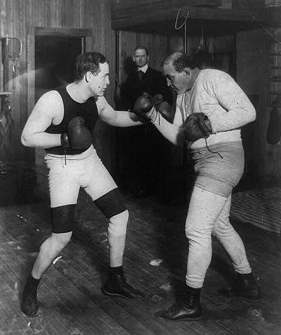 Sam Berger (left) and James J. Jeffries (right) in sparring.